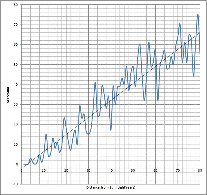 Graph showing in Y the number of stars at about X light years away from earth. Based in data taken from the NStars database